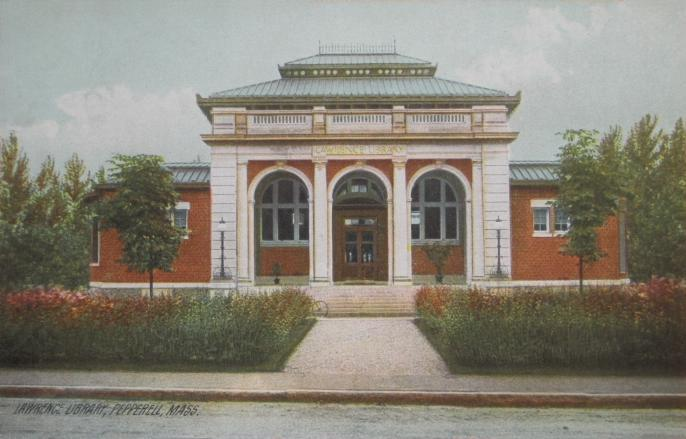 Lawrence Library, Pepperell, Massachusetts. Designed by Ernest Flagg & Walter B. Chambers, it was dedicated in 1901.